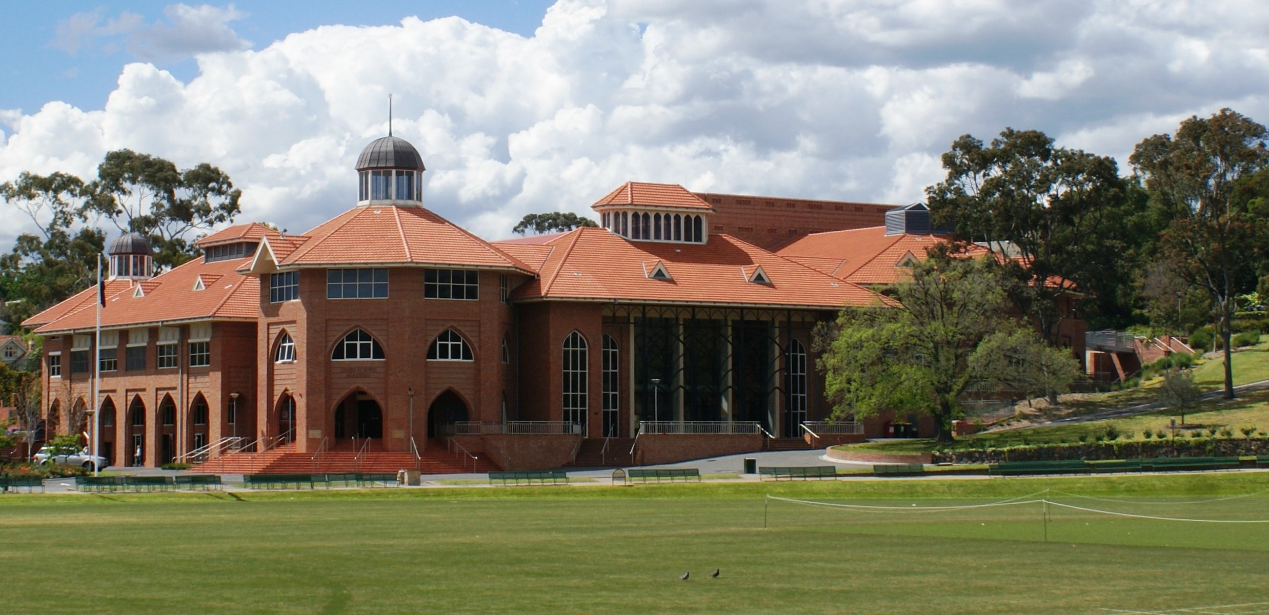 James Forbes Academy - the music and drama school at Scotch College, Melbourne